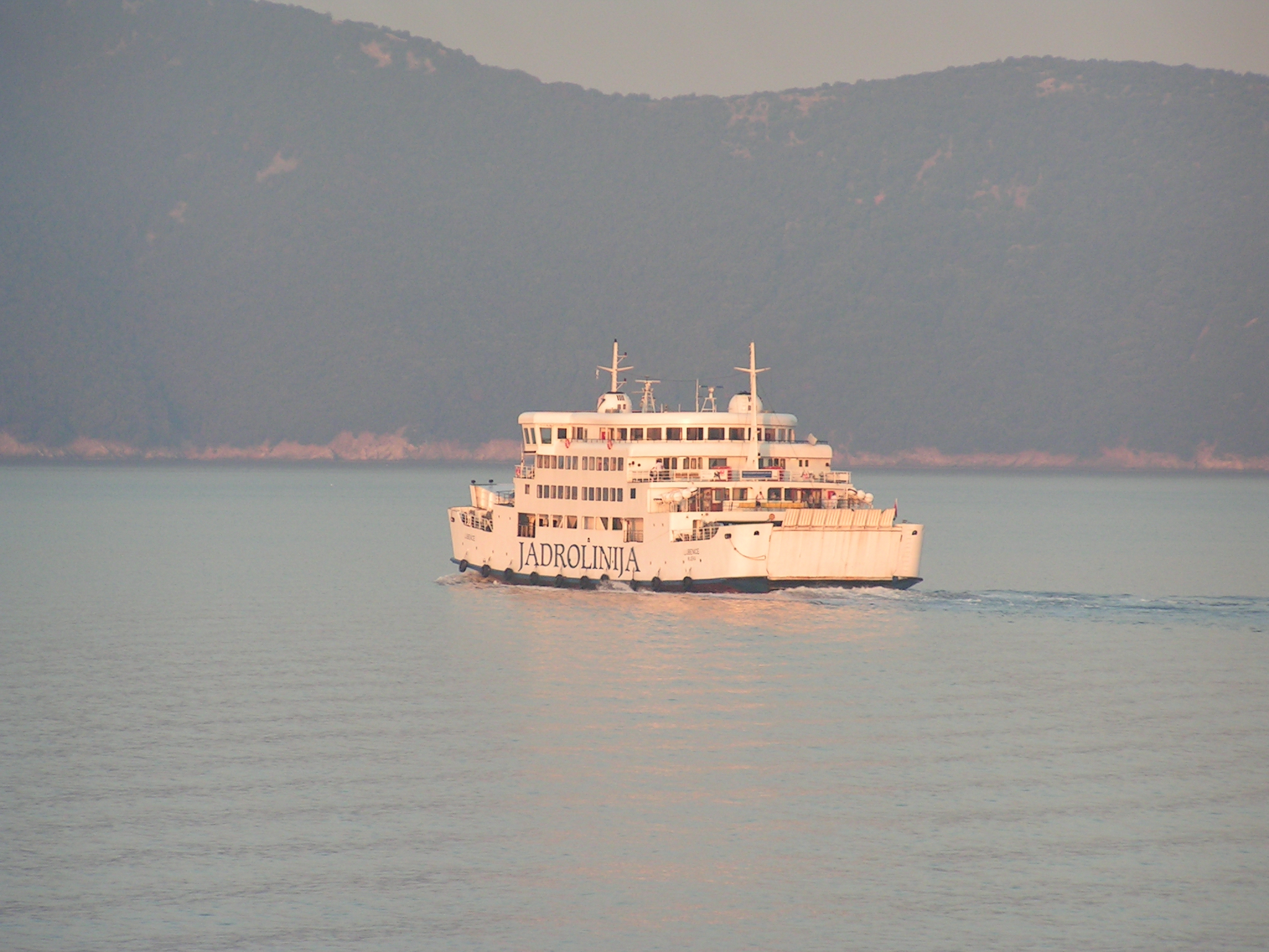 The ferry from Krk to Cres.